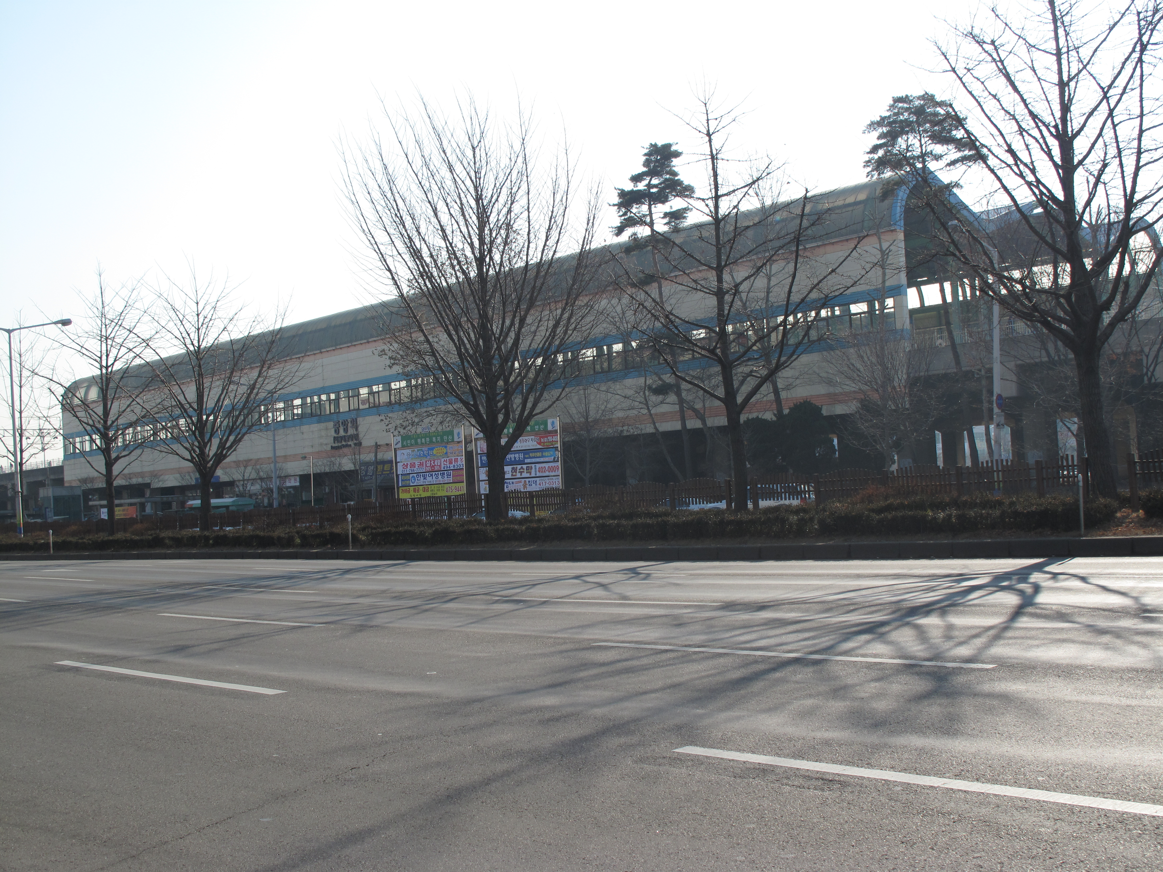 View towards Exit 1 of Jungang Subway Station in Ansan, South Korea